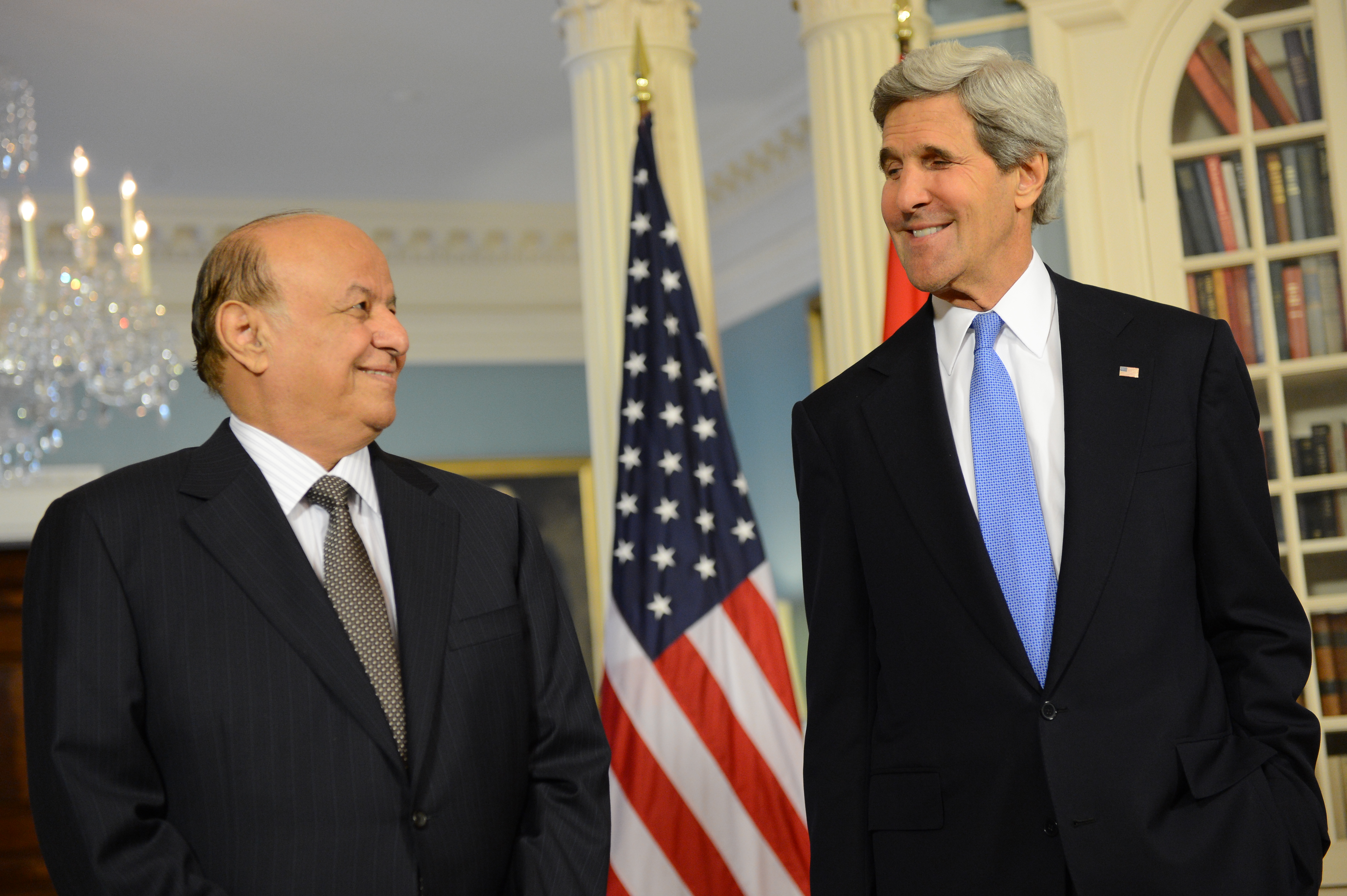 U.S. Secretary of State John Kerry and Yemeni President Abdo Rabbo Mansour Hadi address reporters before their bilateral meeting at the U.S. Department of State in Washington, D.C., on July 29, 2013. [State Department photo/ Public Domain]